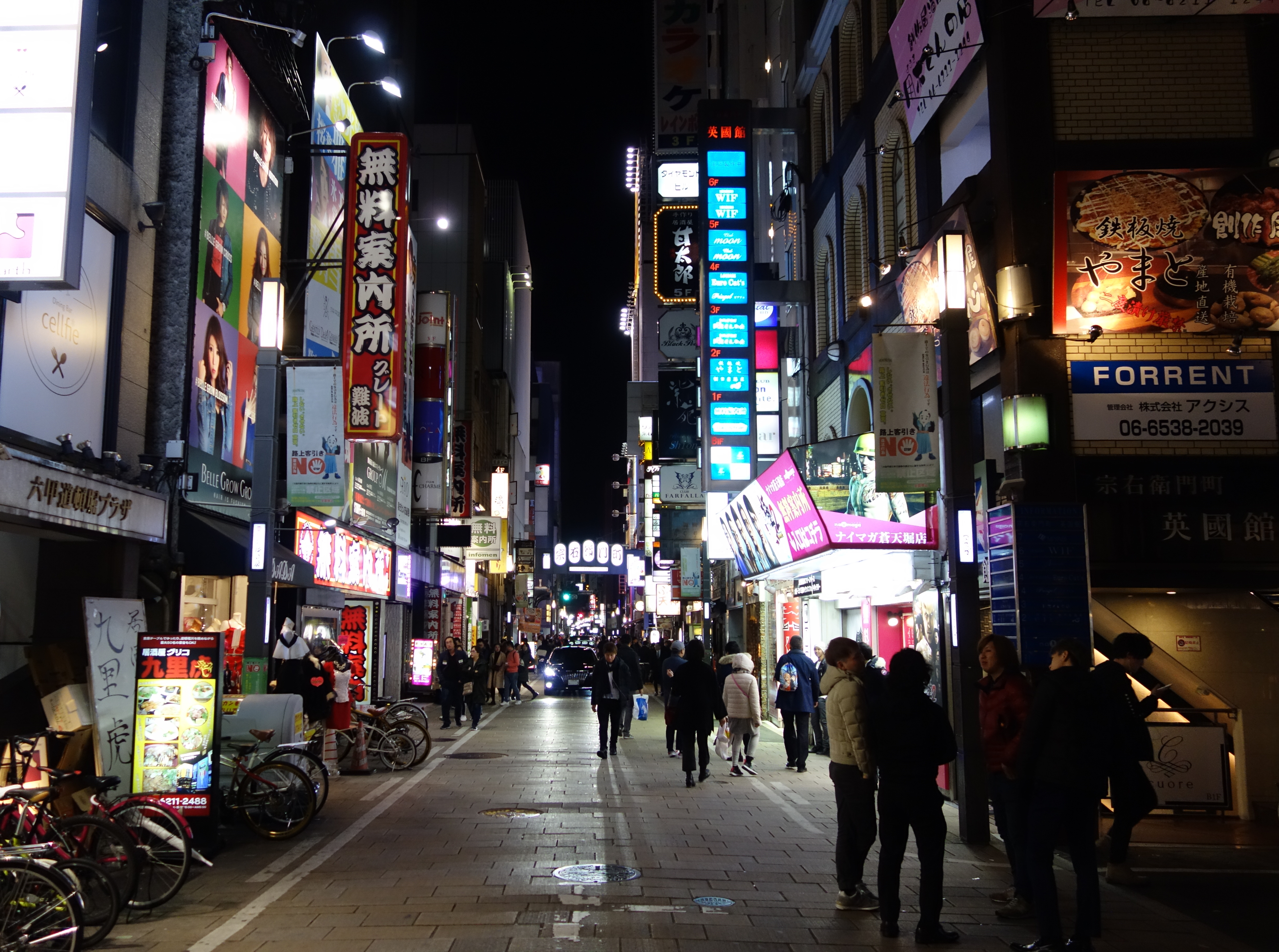 View of Sōemonchō district (facing east). To the left is the neighbouring Shinsaibashi district. To the right is Dōtonbori Bridge and Canal. The Sōemonchō sign is visible in the distance (center).